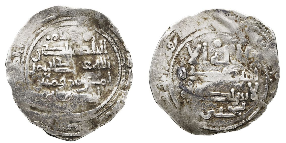 Dirham coined under the reign of caliph Yahya ibn Ali ibn Hammud al-Mu'tali to the name of Abd Al Rahman III, in silver. Neither the mint nor the date can be read but it must have been coined in northern Africa.